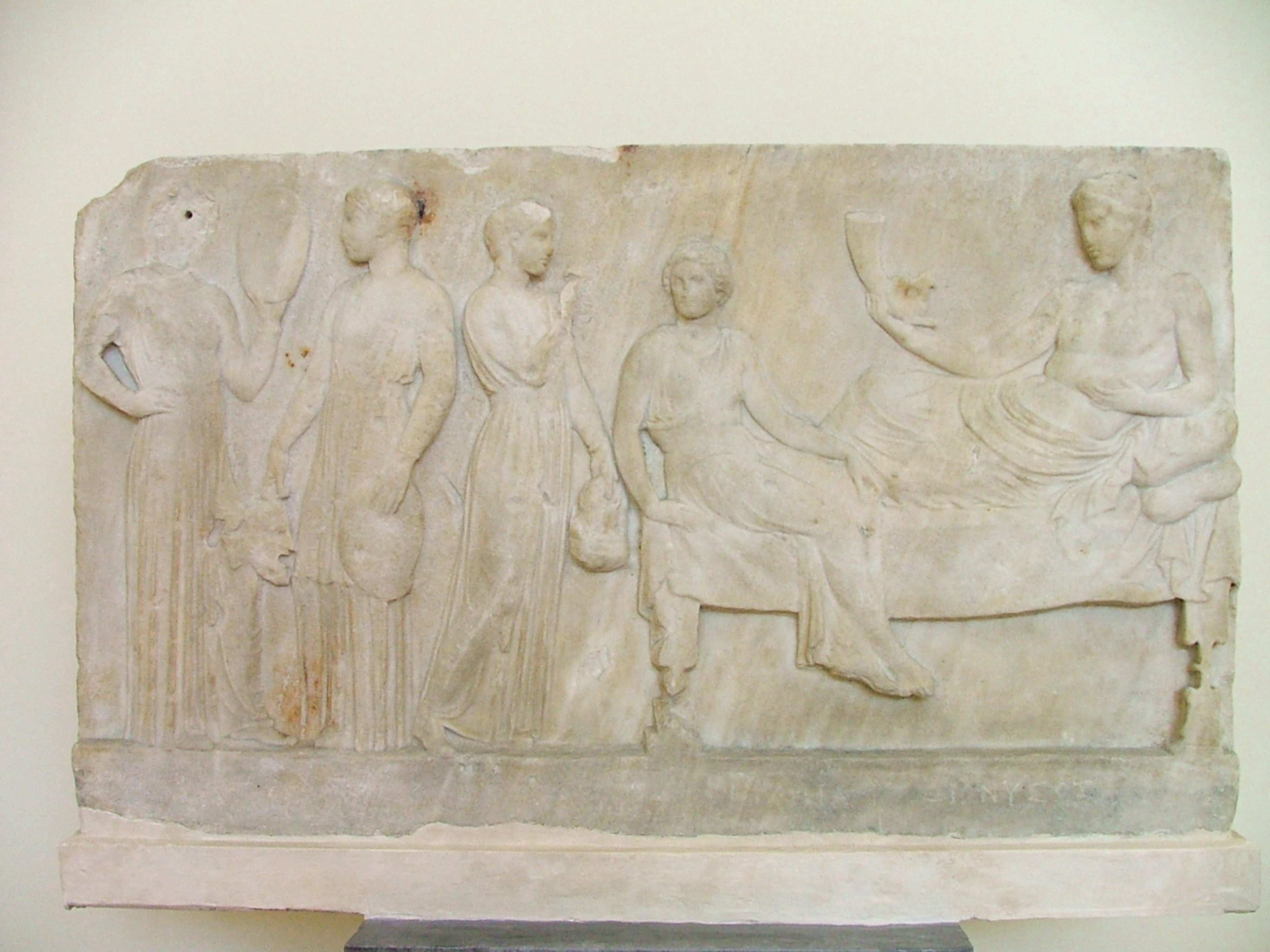 Dyonisos is shown on a kline holding a rhyton and a phiale. At the foot of his klina stands a woman, Paideia, whit her face turned towards a man who holds a theatrical mask in his left hand. Two actors are shown at left; one holds a tympanon, the other a mask and a tympanon. The relief was dedicated by actors tyo the god Dyonisos after a theatrical performance, possibly Euripides' Bacchae. Ca. 400 BC. Inv. number 1500.